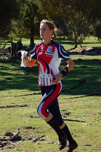 Sarka Svobodna (CZE) at Junior World Orienteering Championships 2007 -- Long distance